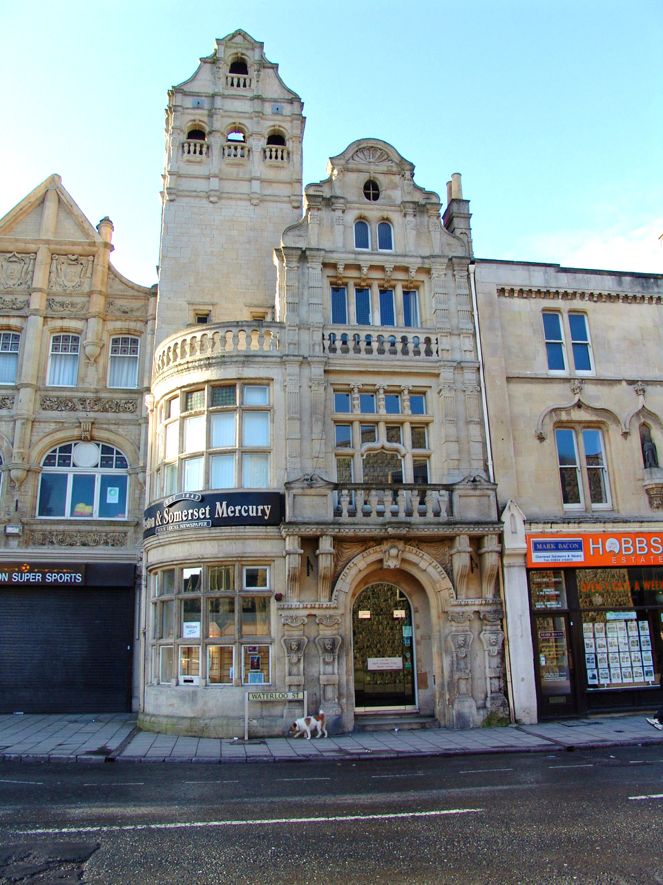 The Mercury Building, Weston-super-Mare, Hans Price (1835-1912), photo courtesy of Jane Cartney